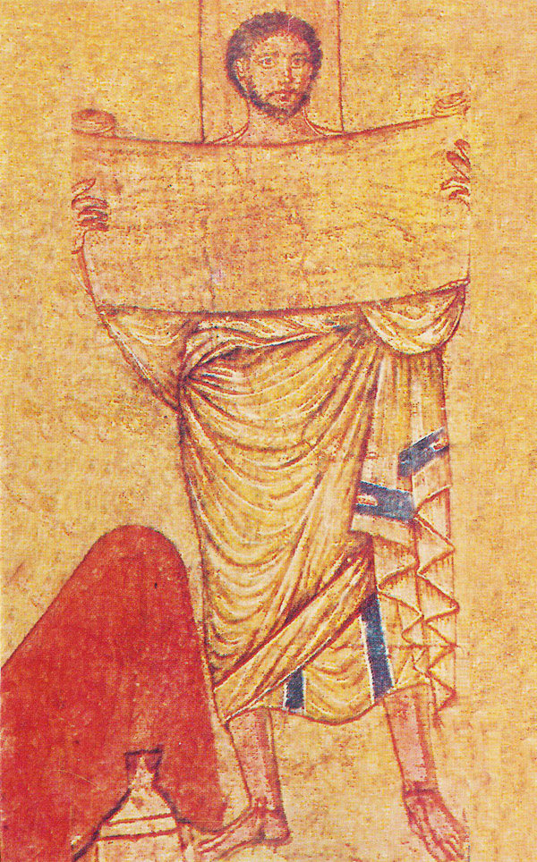 Panel of Jeremiah or Ezra, holding/reading a scroll, in the Dura Europos synagogue.